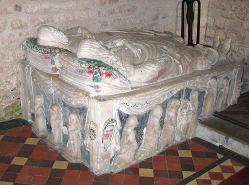 Unett 17th century tomb, St Michael's, Castle Frome Francis Vnett, (Unett), a cavalier, died 1656 and his wife Sara Vnett, died 1659. This is in the chancel, to the left of the altar. The tomb shows their offspring gathered round.